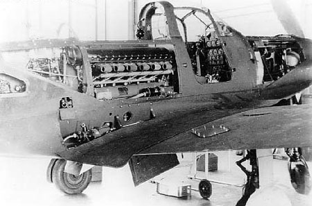 Description: Bell P-39 Airacobra center fuselage detail with maintenance panels open. (U.S. Air Force photo)